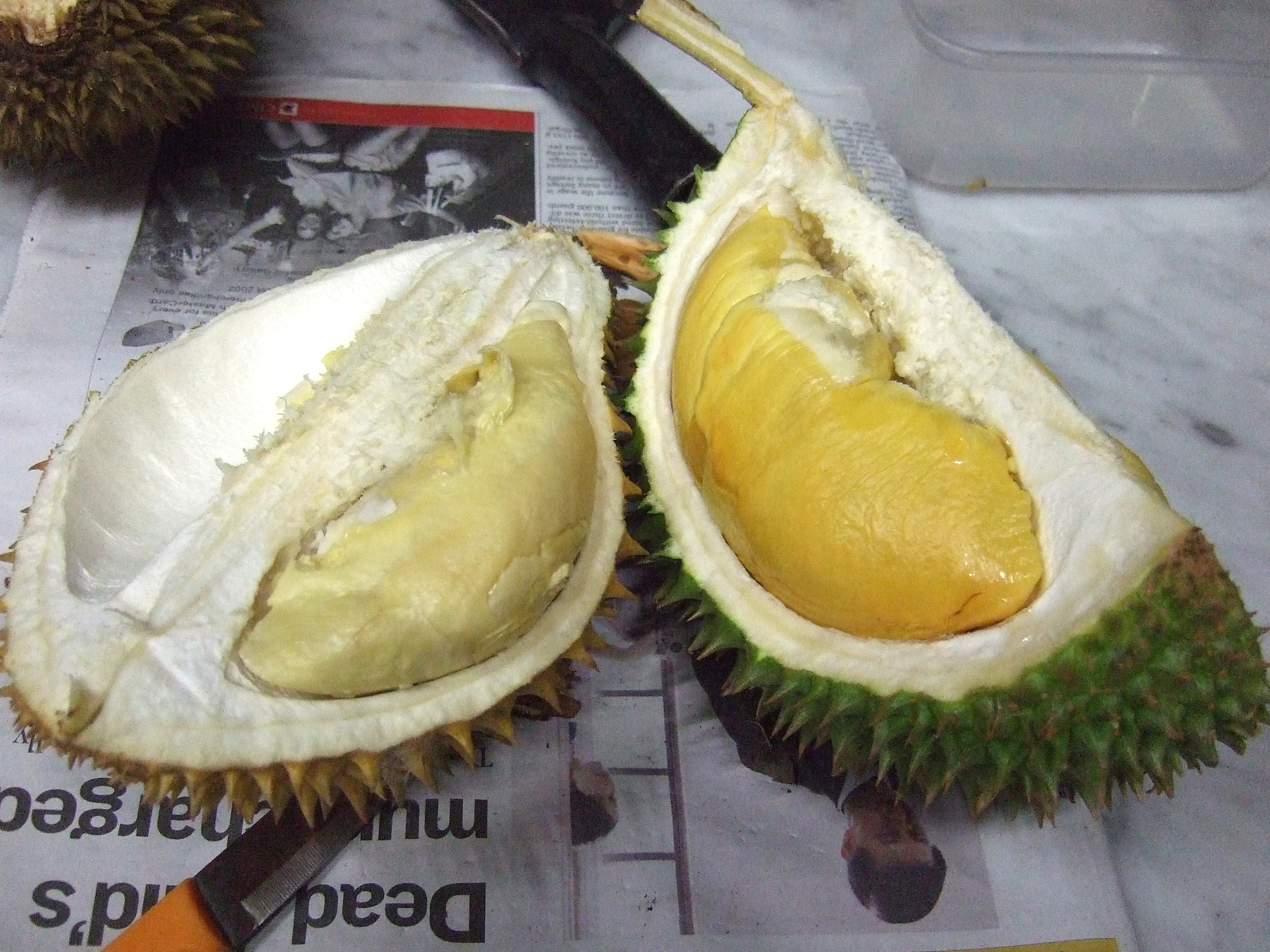 You can see the difference in colour. The variety on the right is a "101" which has a rich yellow colour as you can see, and a smooth, rich, creamy texture. The 101 is also very easy to open. On the left is the random variety that grows on my grandpa's estate - don't know what it is as the seeds were harvested over 20 years ago by mum & her siblings eating fruit they had purchased.